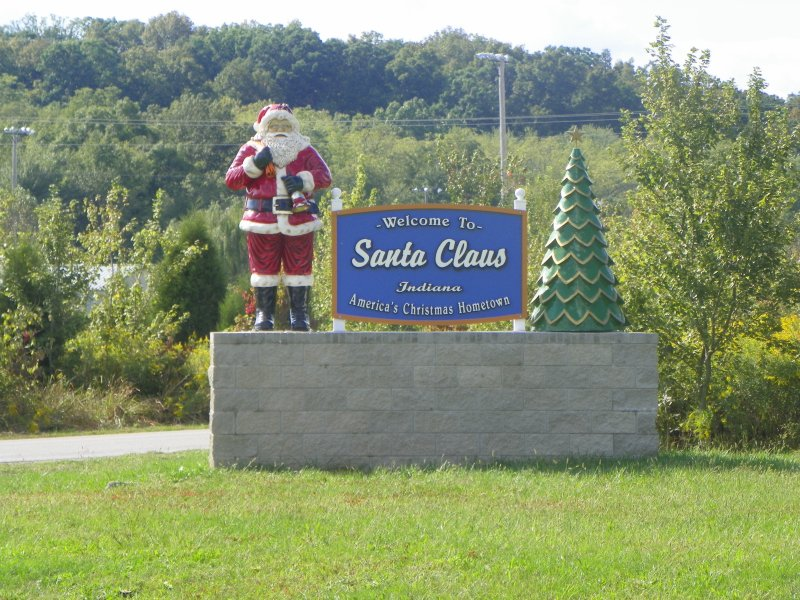 Welcome to Santa Claus, Indiana.